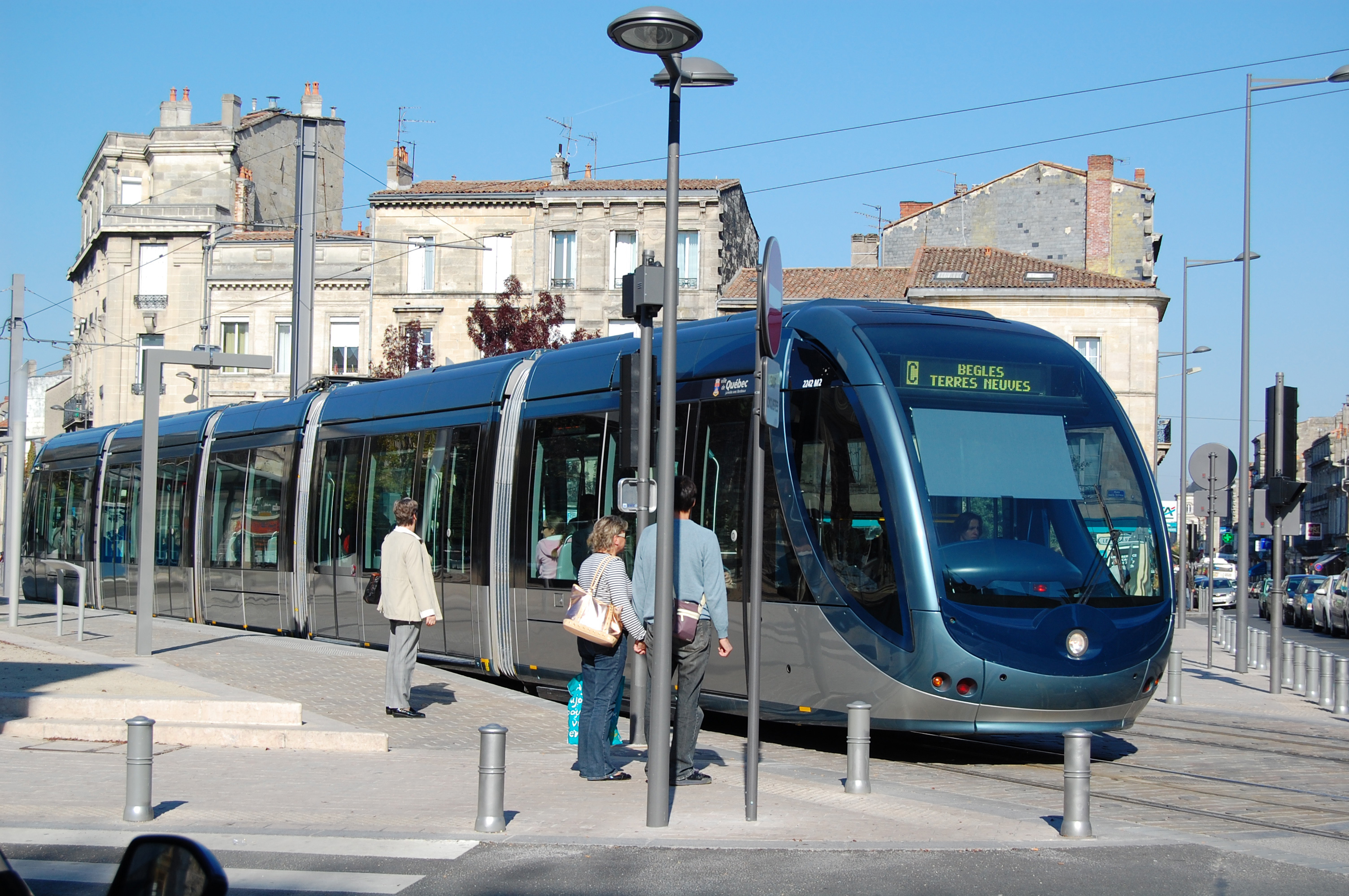 a Citadis of the Line C at "Paul Doumer" square, Bordeaux, France